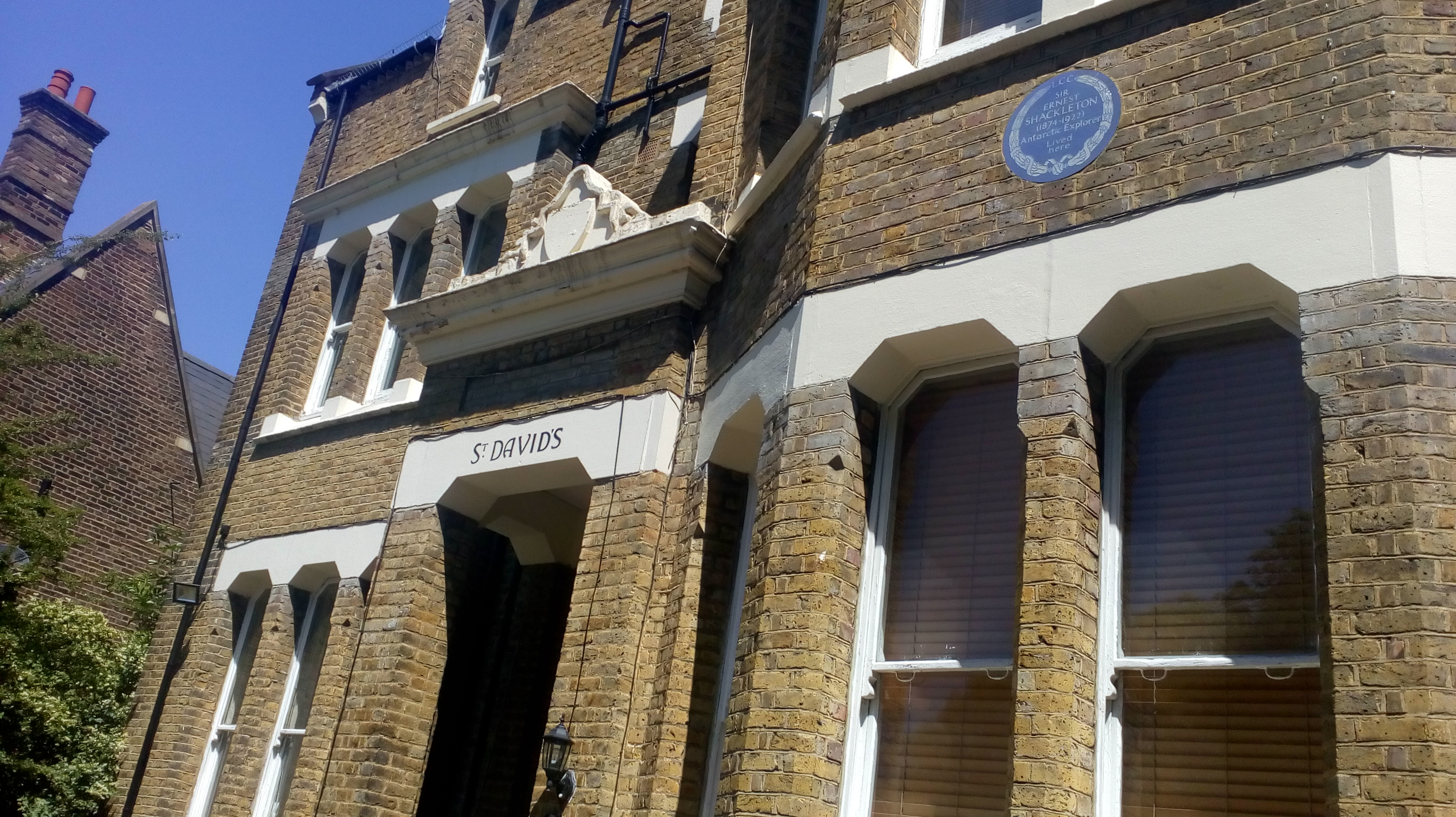 Blue plaque marking the home of the antarctic explorer Ernest Shackleton